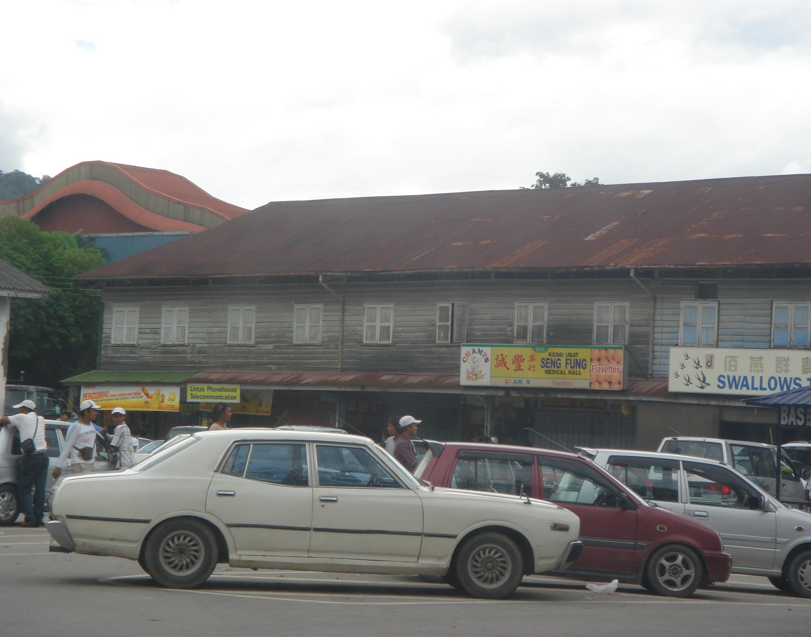 One of the three remaining blocks of pre-World War II shophouses in Menggatal, Sabah, Malaysia.